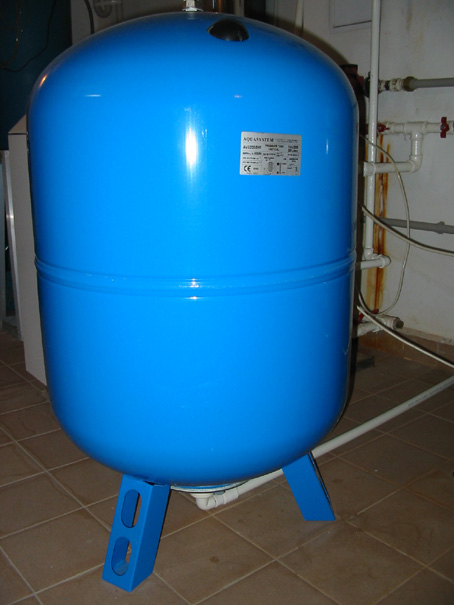 Hydraulic reservoir